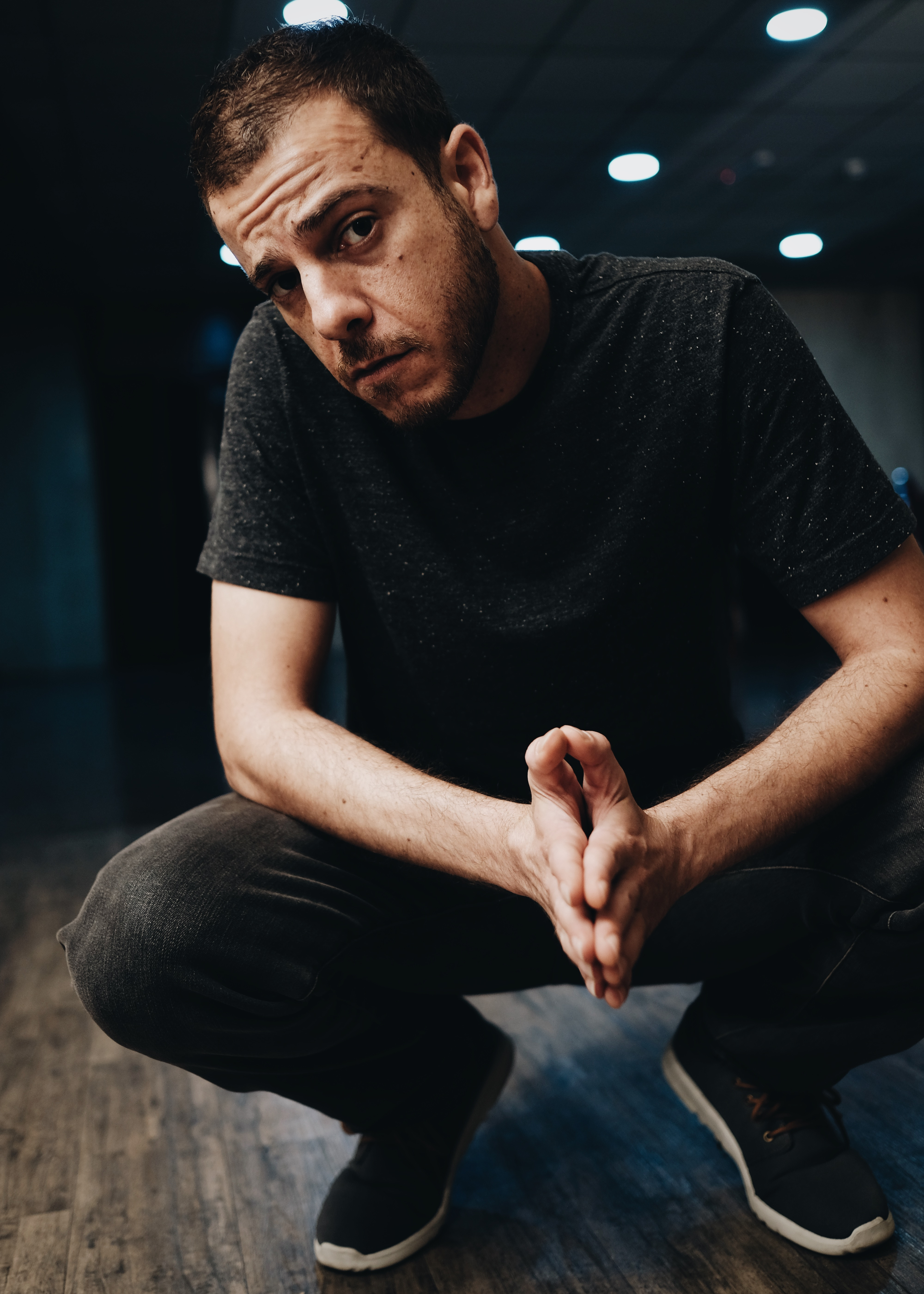 El Far3i at Shams Theatre in Amman, Jordan